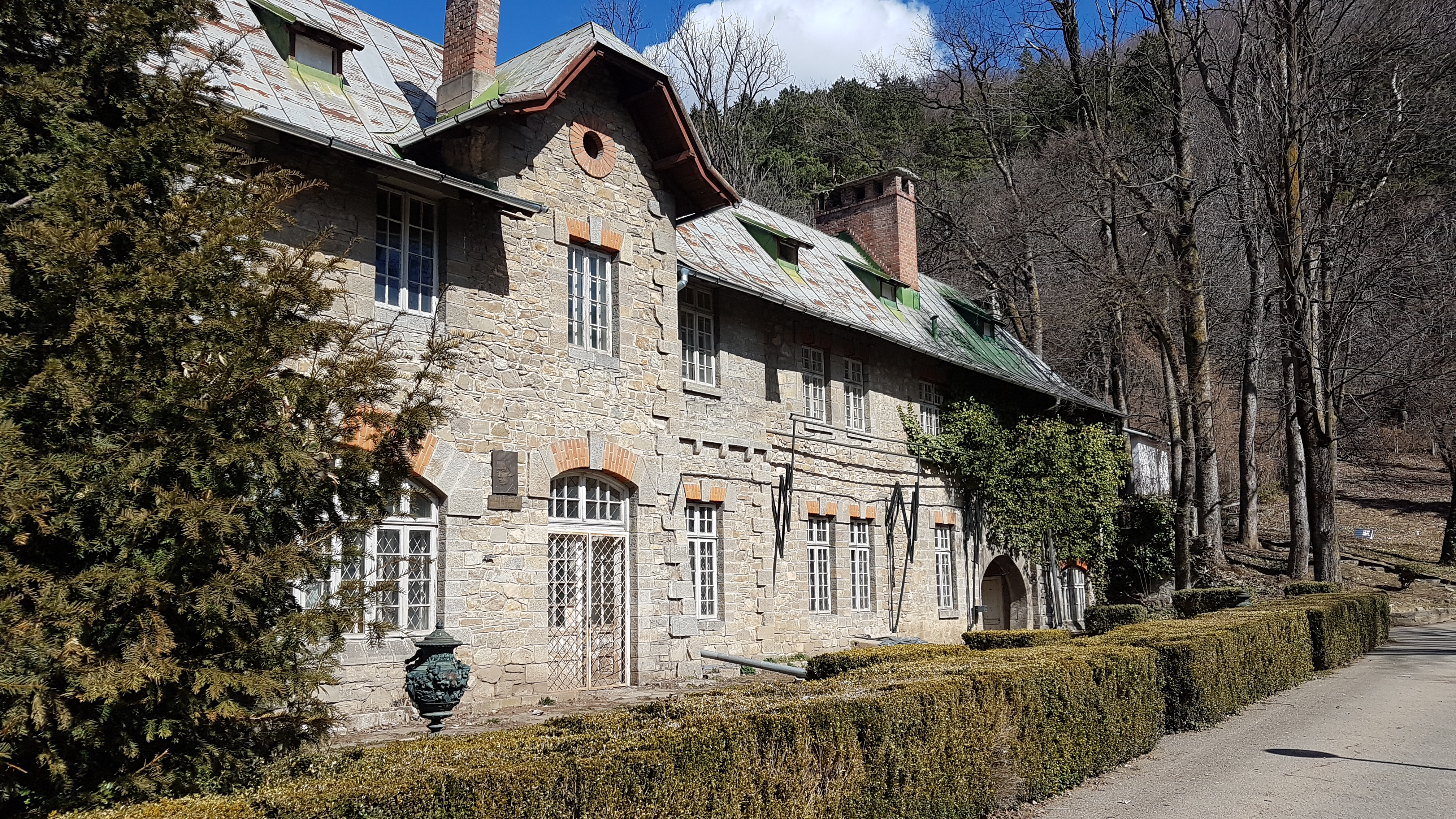 Posada Castle and the Hunting Museum